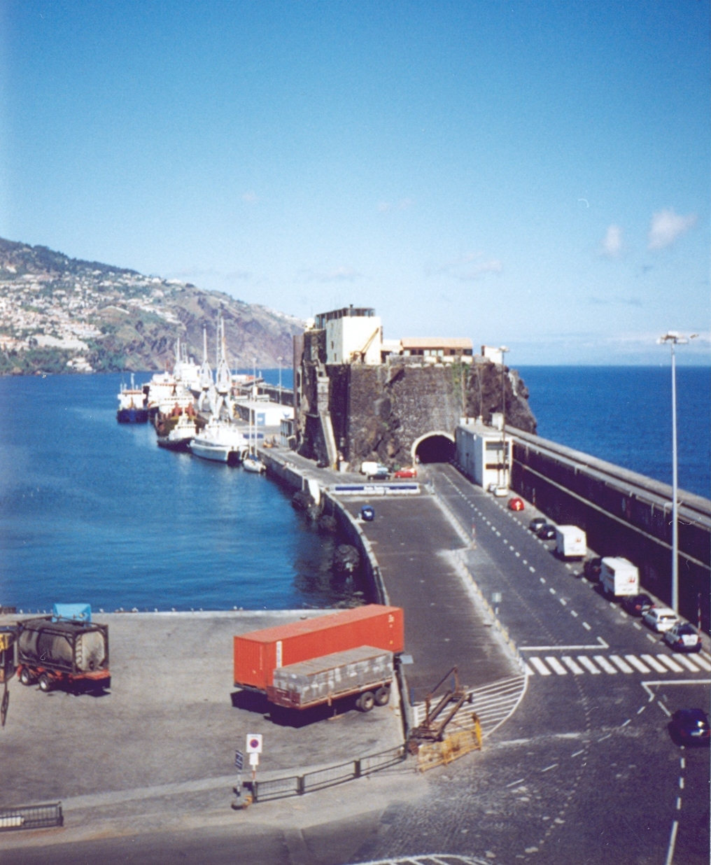 The port of Funchal city, Madeira Island, Portugal.